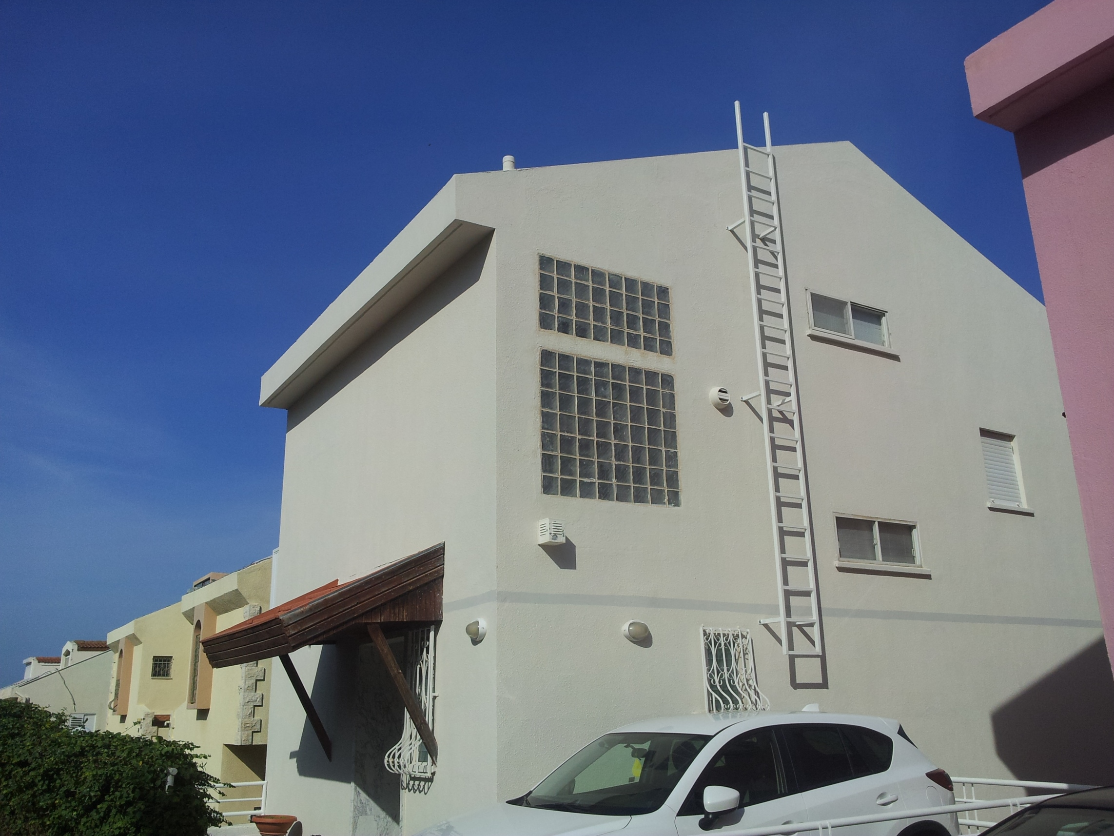 סולם לגג